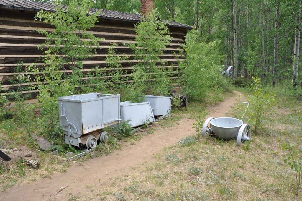 "Abandoned" mining equipment (it is actually part of an outdoor museum display) at the ghost town of Vicksburg, Colorado.